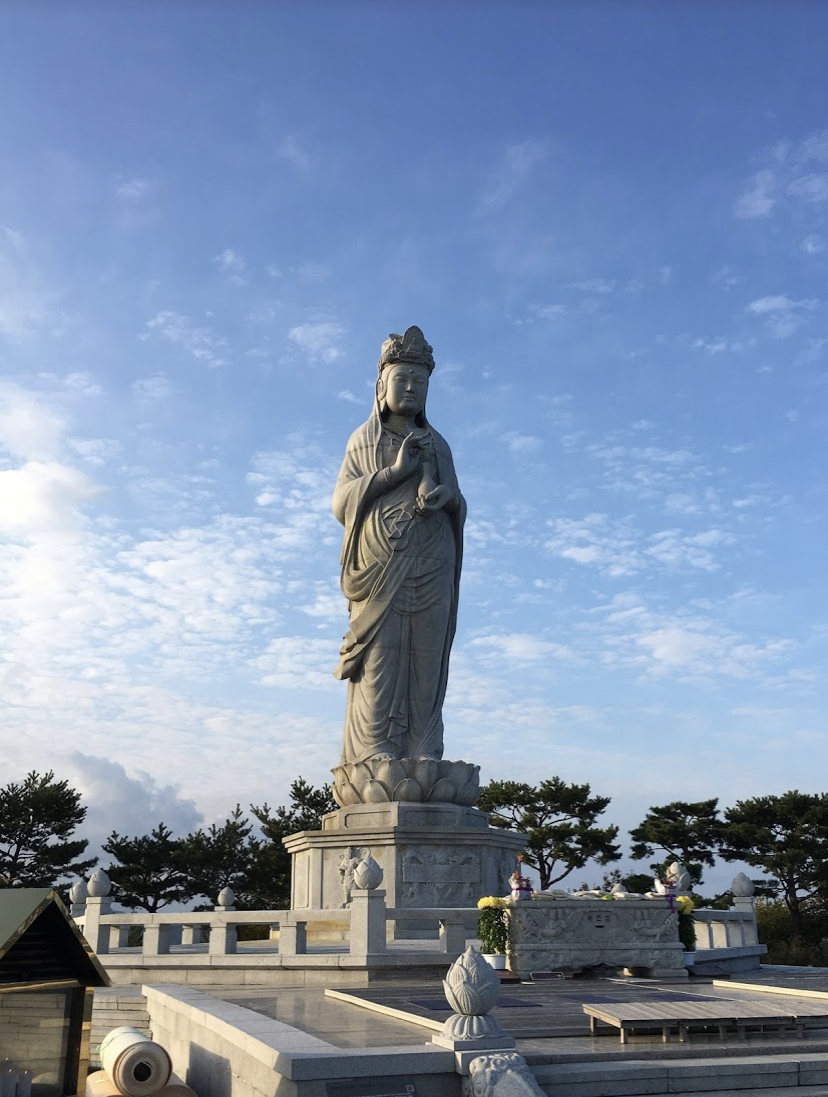 Gwaneum(Avalokitesvara) statue, Naksan-sa in Korea